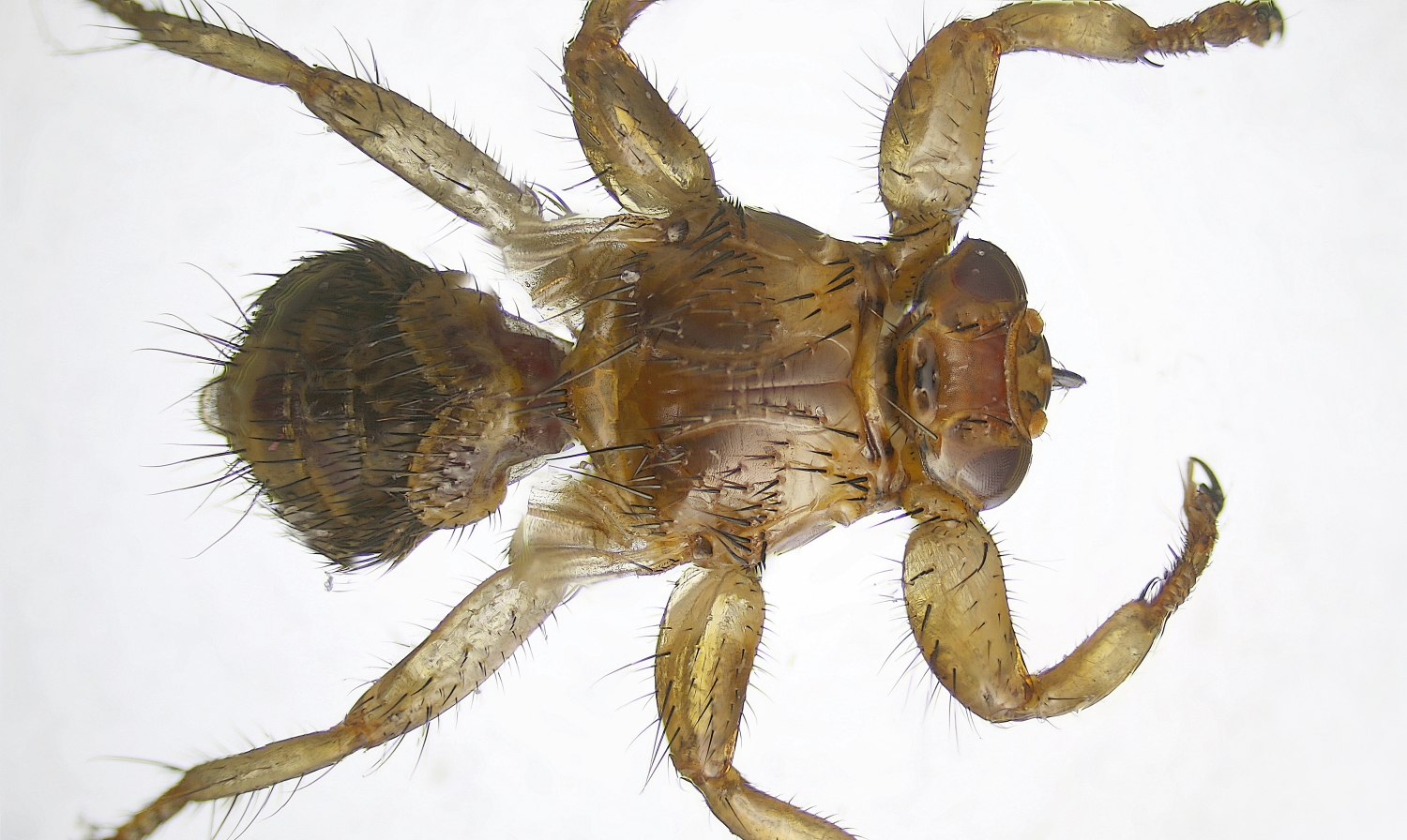 Lipoptena cervi with wings already broken off